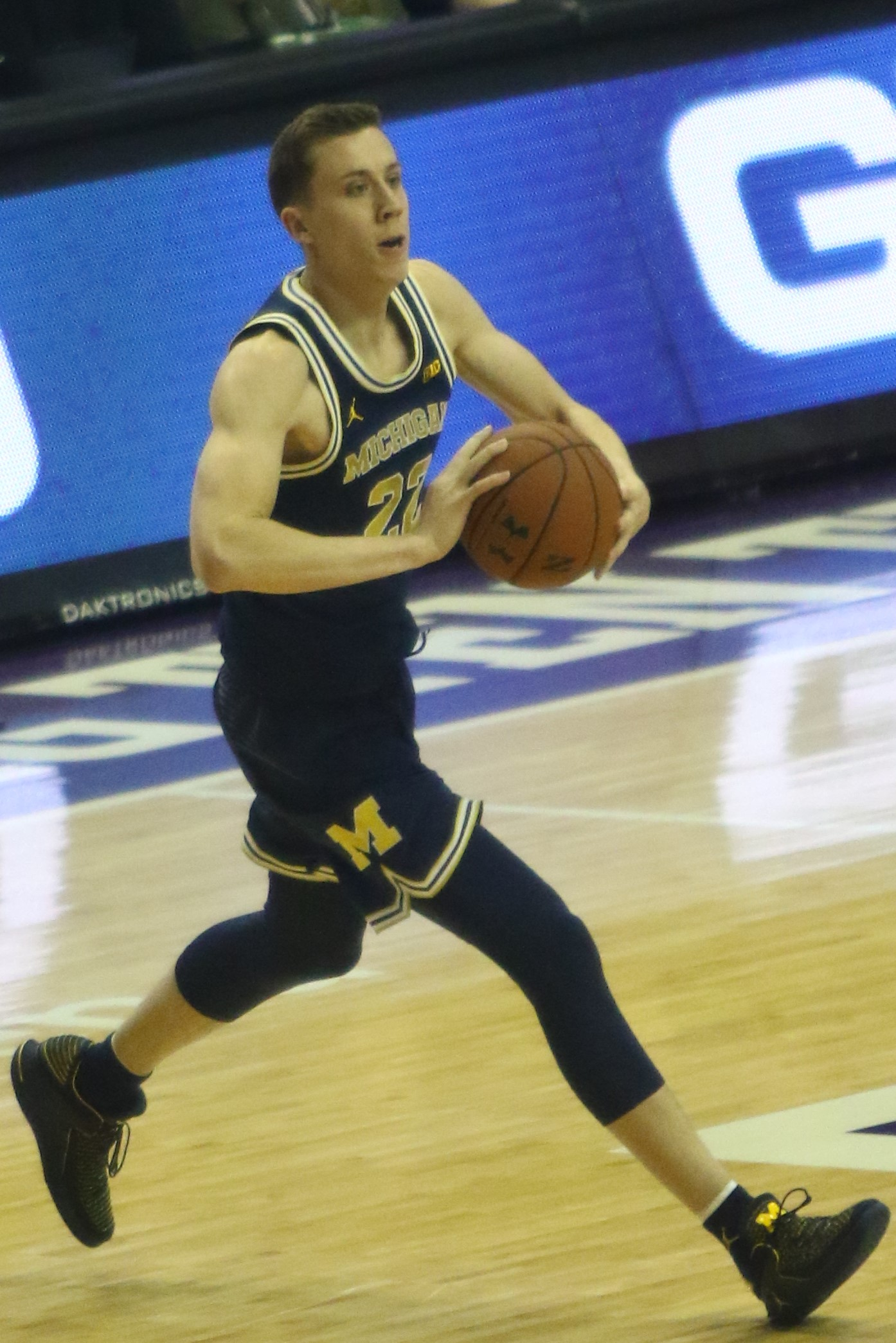 Duncan Robinson (basketball) playing for the w:2017–18 Michigan Wolverines men's basketball team at Allstate Arena